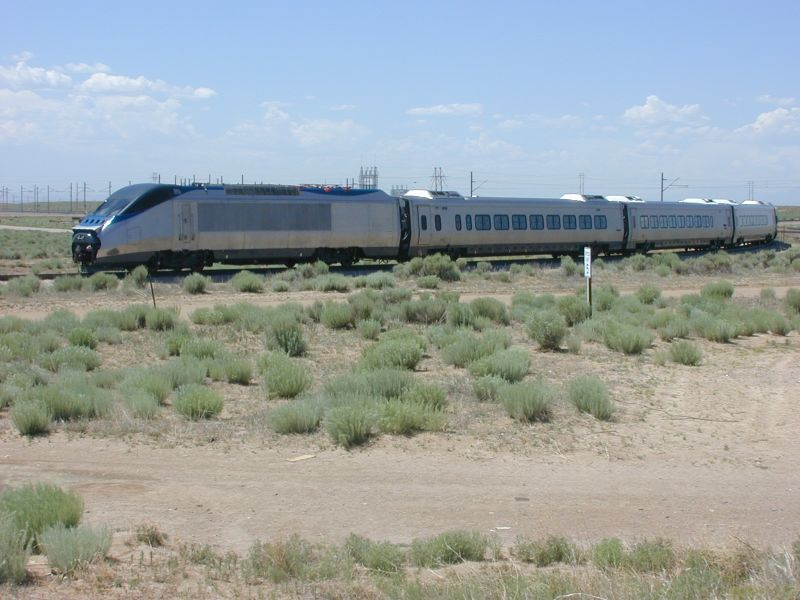 An Acela Express trainset testing at TTCI in June 2000